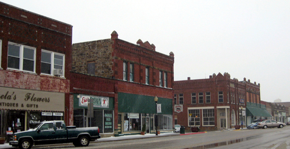 Downtown Okemah, Oklahoma, west Broadway street facing west.